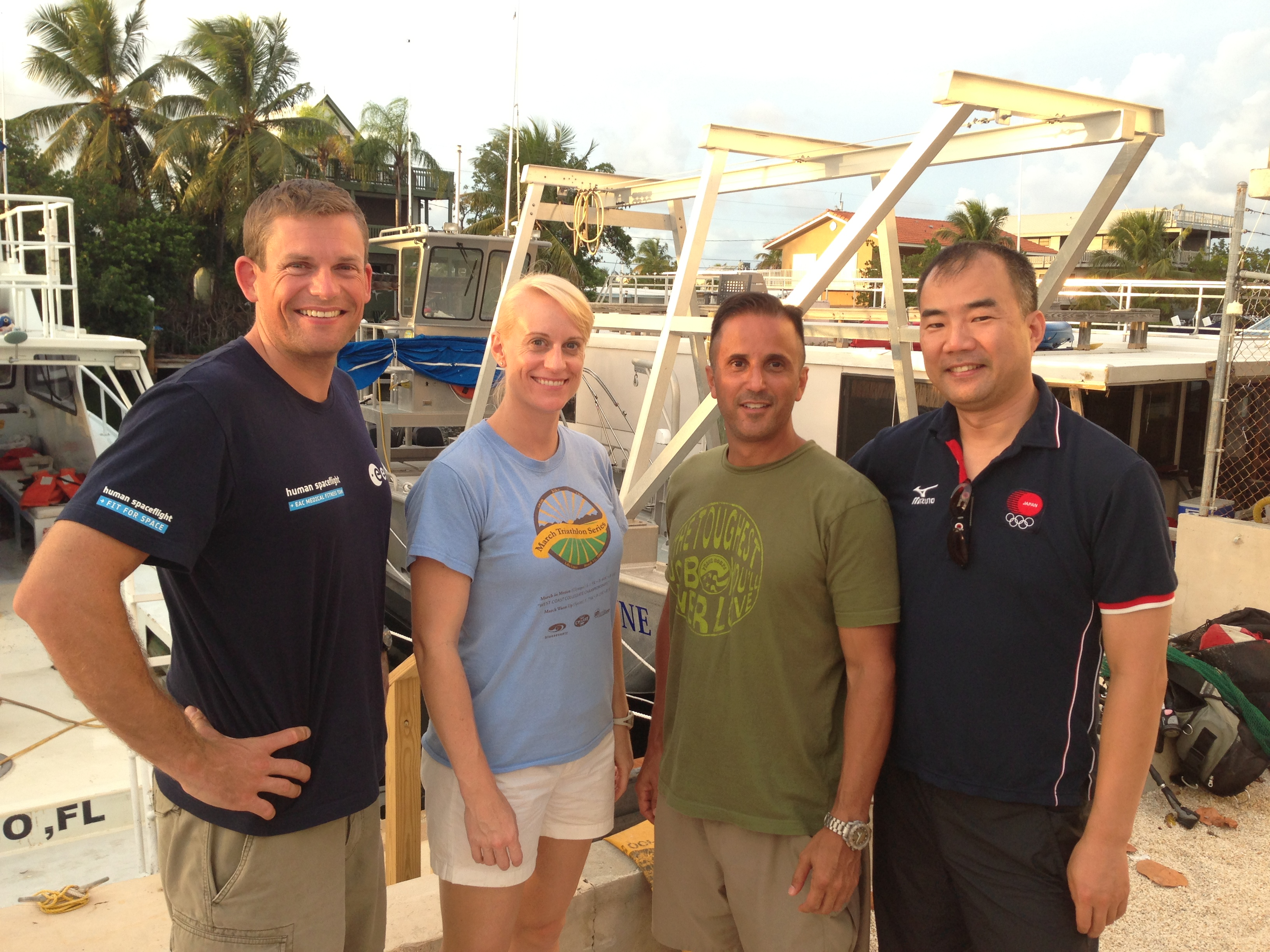 The NASA/ESA/JAXA SEATEST II underwater mission crew